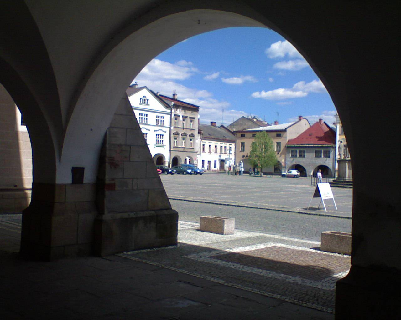 May 1 Square in Hostinné, Trutnov District, Czech Republic